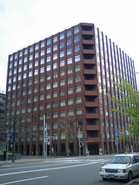 Photograph of Hokkaido Government Office Annex Building in Chuo-ku, Sapporo, Hokkaido, Japan.